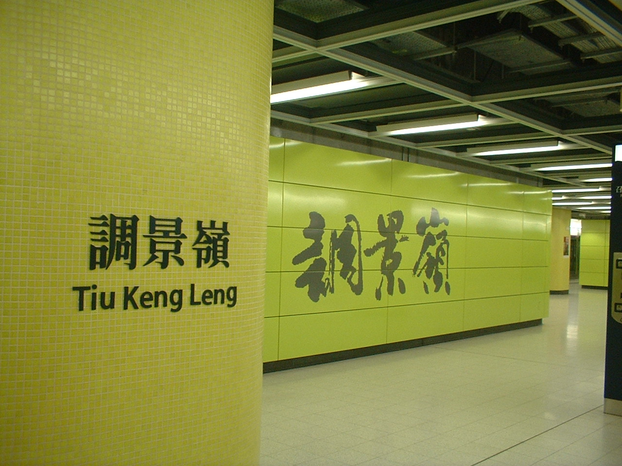 MTR Tiu Keng Leng station platform